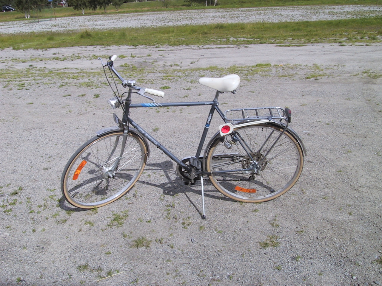 Traditional style 5-gear bicycle from late 1980sNorsk bokmål: DBS-sykkel med fem gir fra slutten av 1980-tallet.